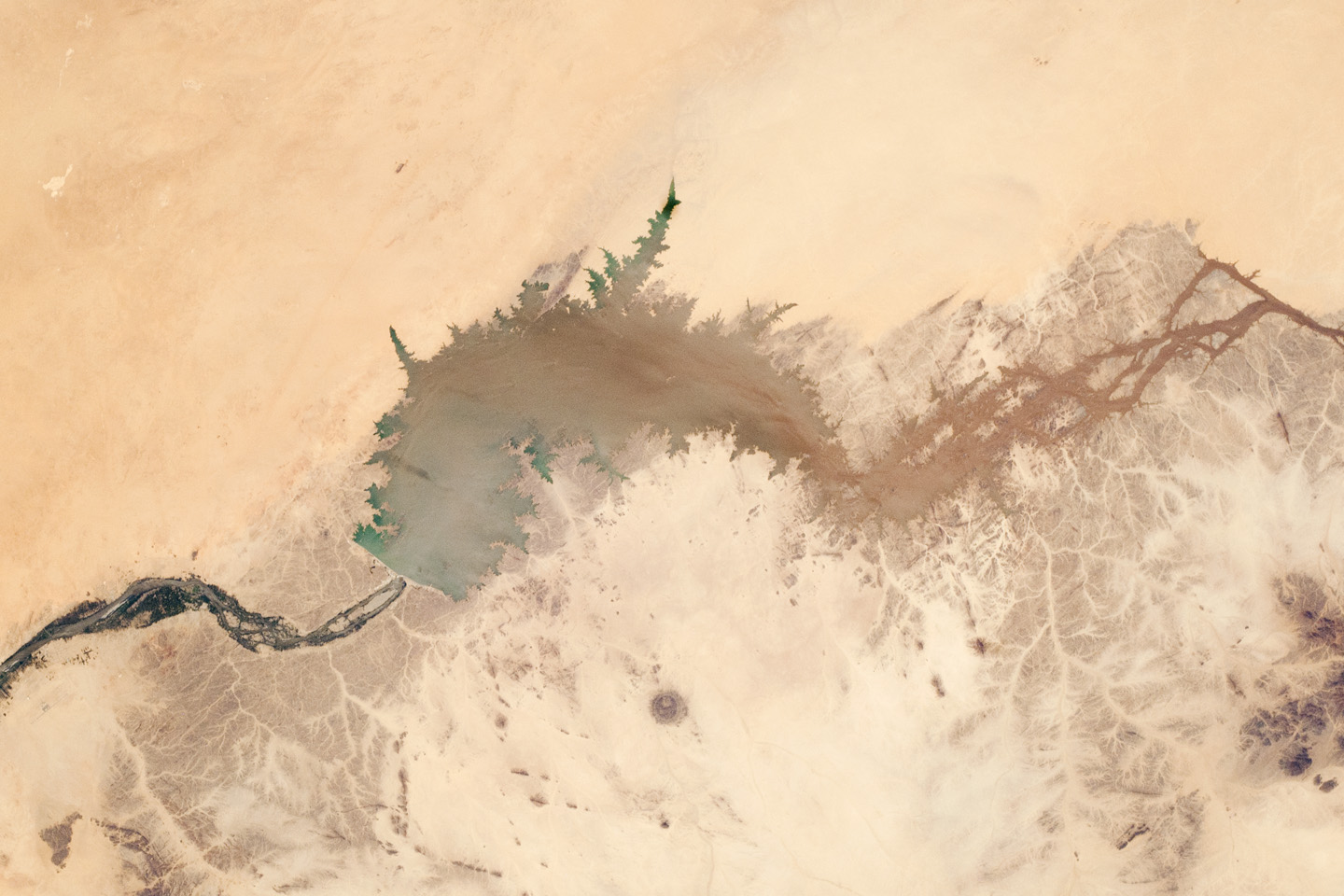 The Merowe Dam in Dar al-Manasir - Sudan, as seen from the International Space Station.